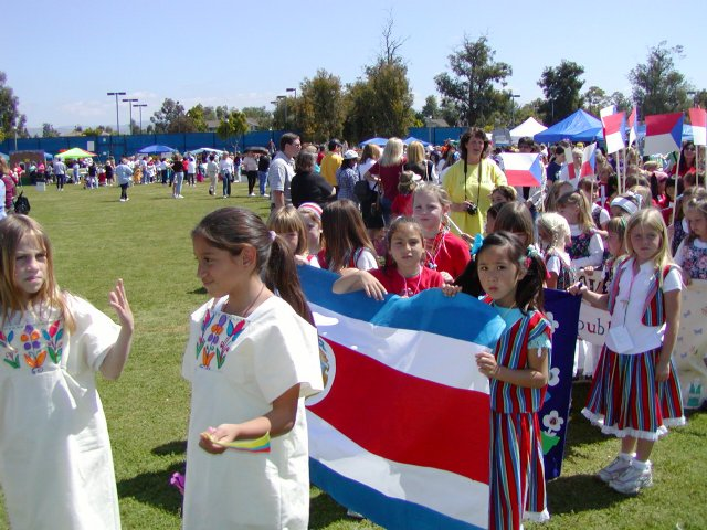 Photo by member of staff at UCI of International Day, 2003, California. Children are dressed in Costa Rican folk costumes.